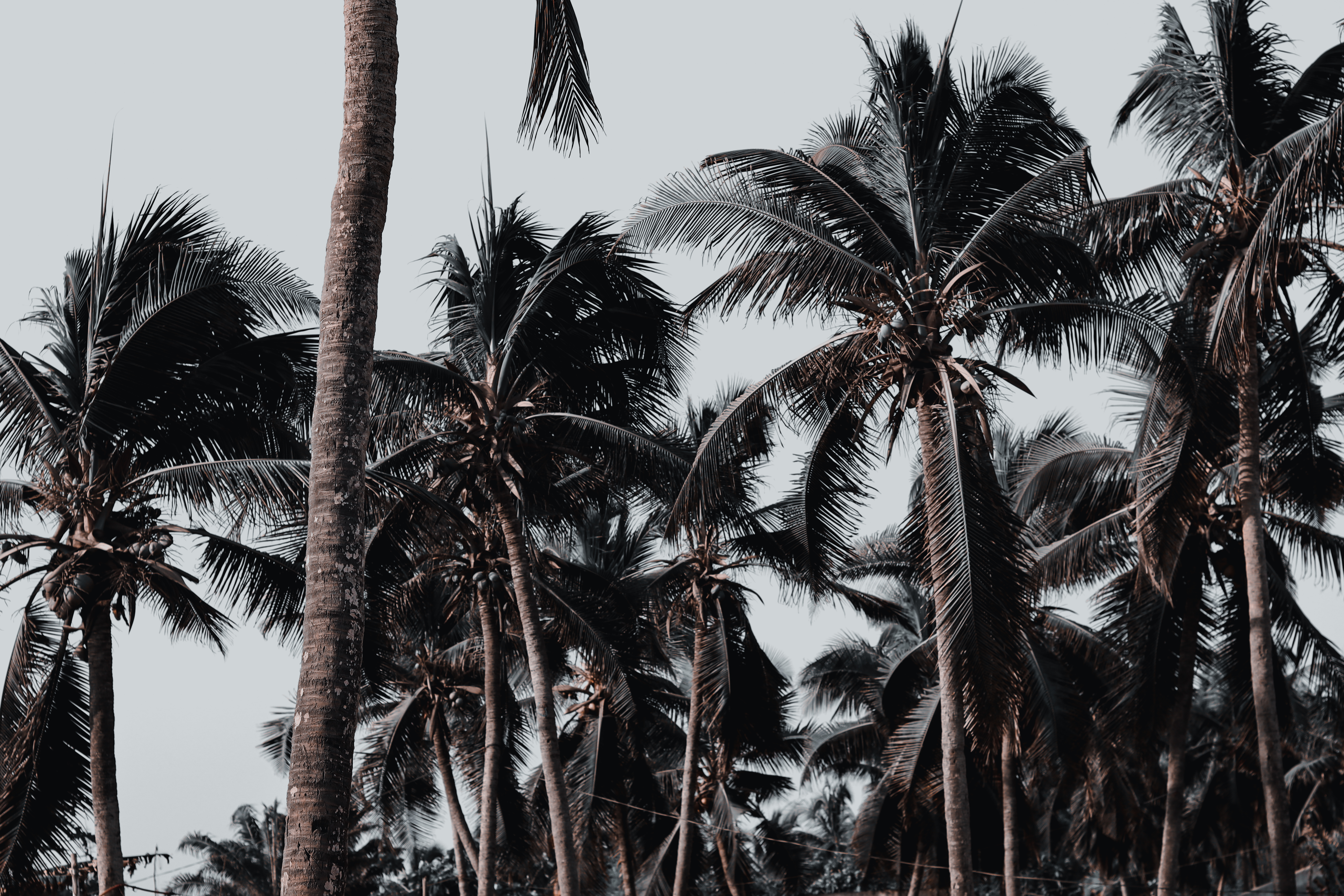 This is an image with the theme "Africa on the Move or Transport" from: Togo